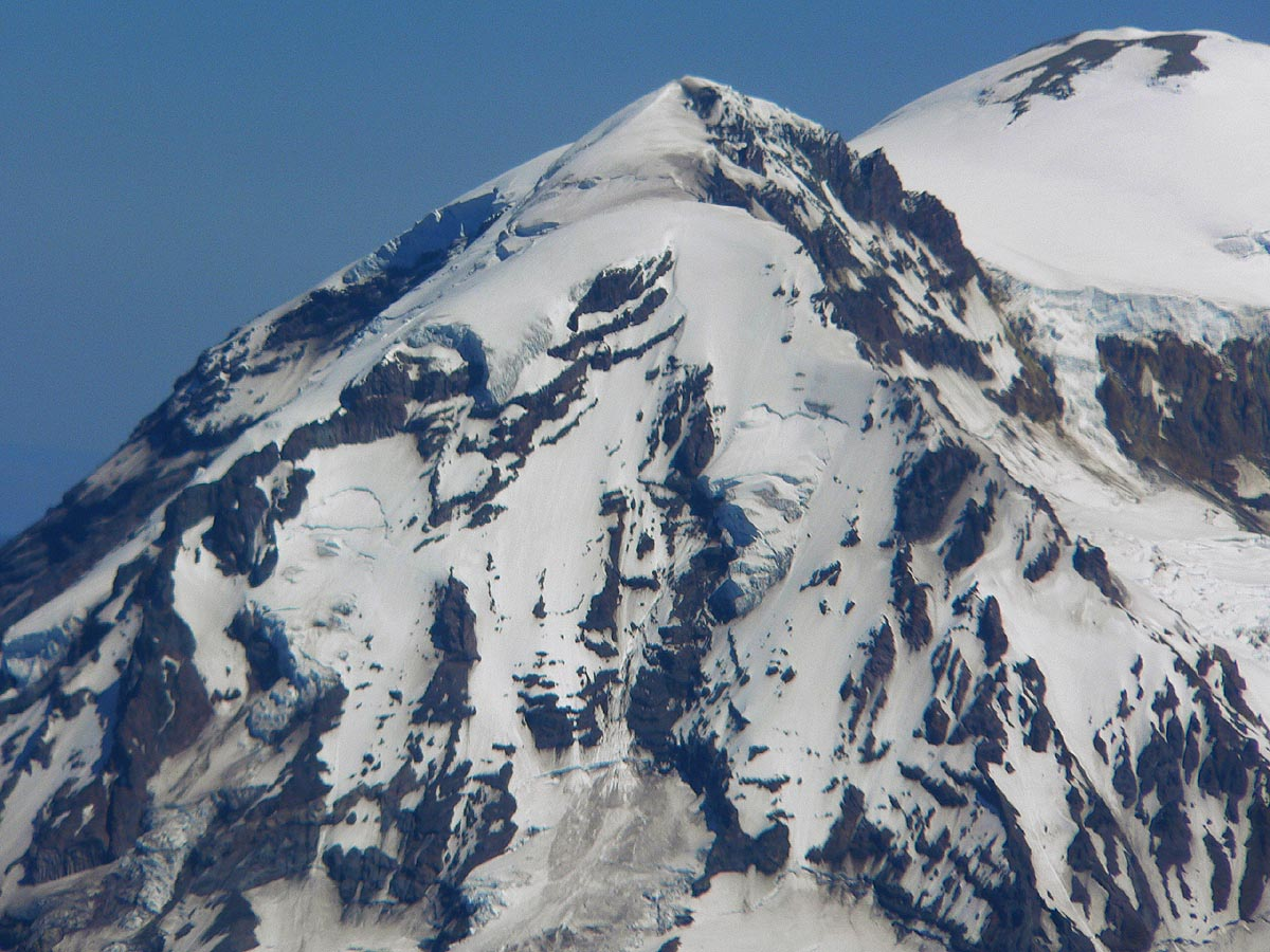 Aerial closeup of Liberty Cap on Mount Rainier